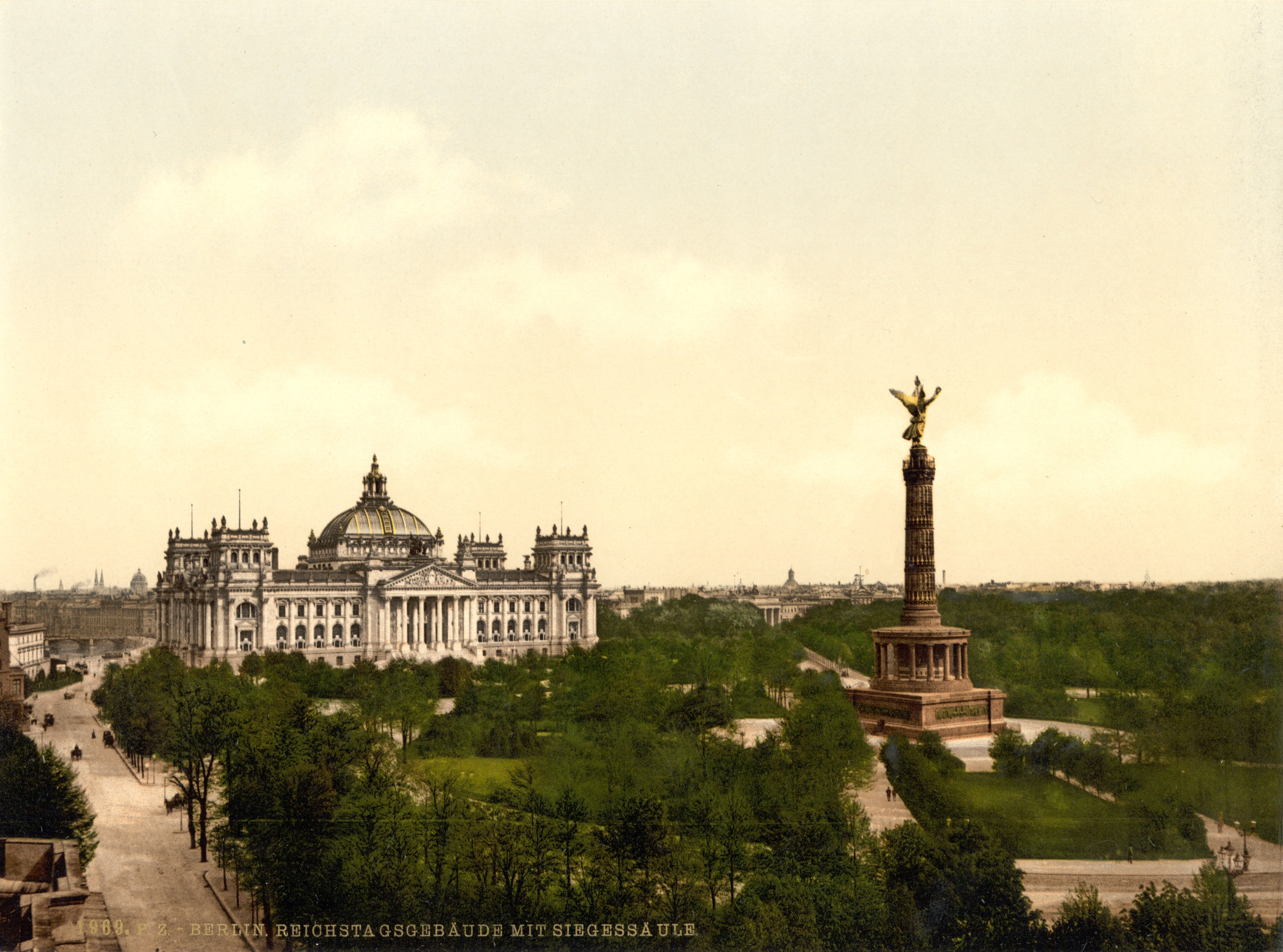 Reichstag House with Triumphal Column on the Königsplatz (now Platz der Republik), Berlin, Germany, around 1900)